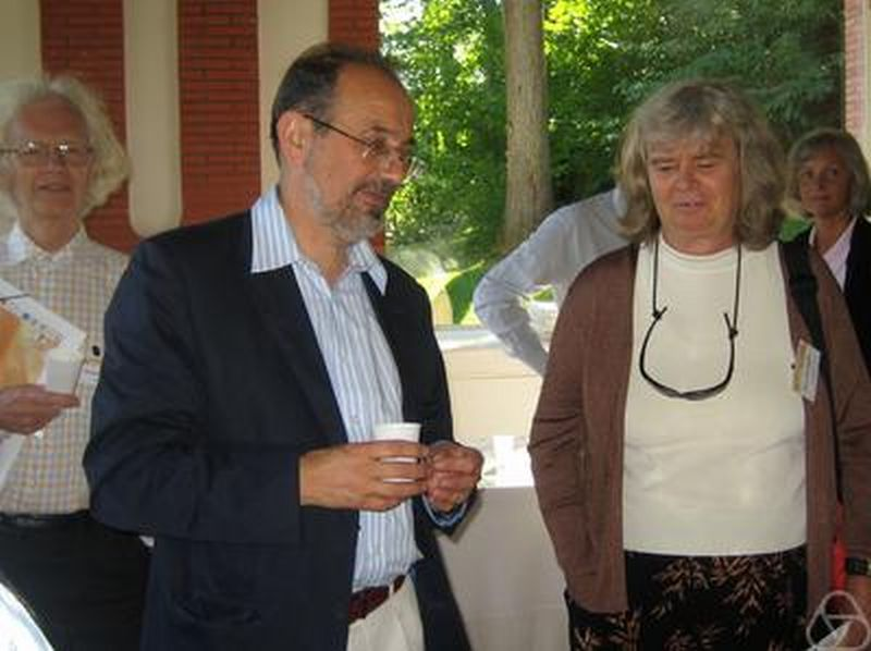 Hermann Karcher (left, in the background), Nigel Hitchin (middle), Karen Uhlenbeck (right), Bures-sur-Yvette 2007 (Bourguignon Conference)